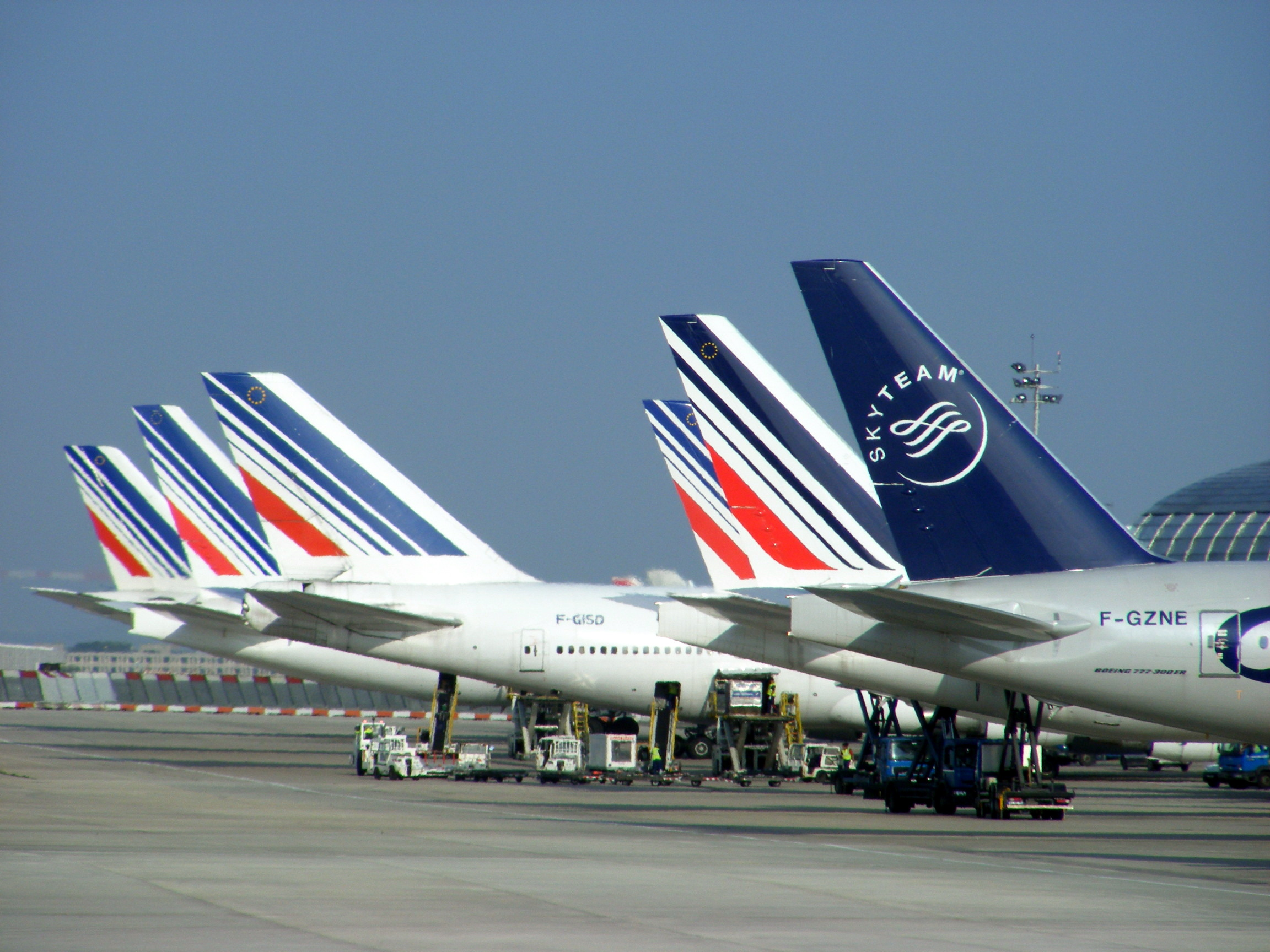 Six Air France aircraft sporting three different liveries. The back four are painted in the Eurowhite livery, the second one in is the New Designed Eurowhite livery, while the one on the foreground sports the SkyTeam livery